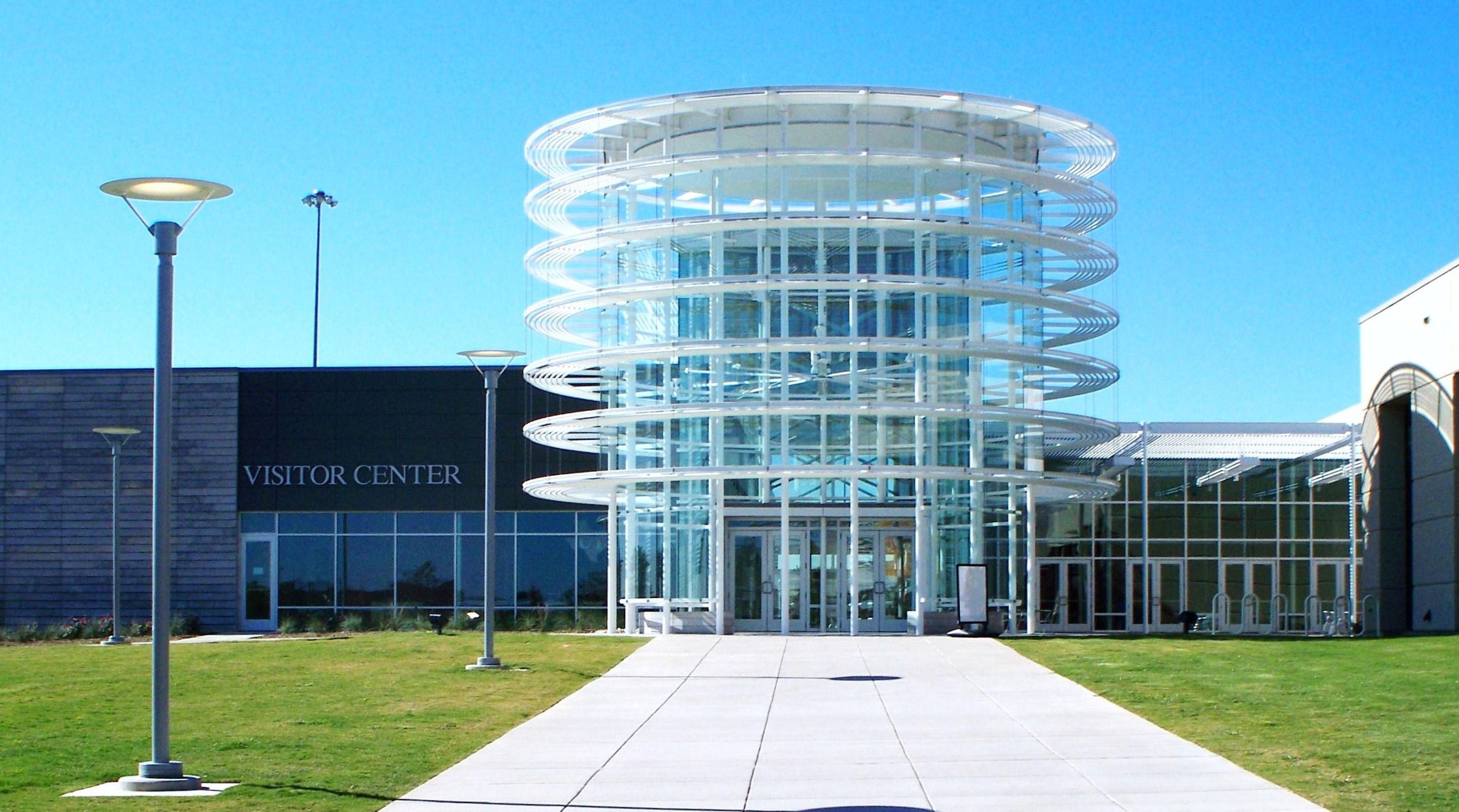 University of Texas at Dallas Visitors Center. The structure’s main entrance features an open-air glass and steel rotunda with a giant fan with 10-foot blades.